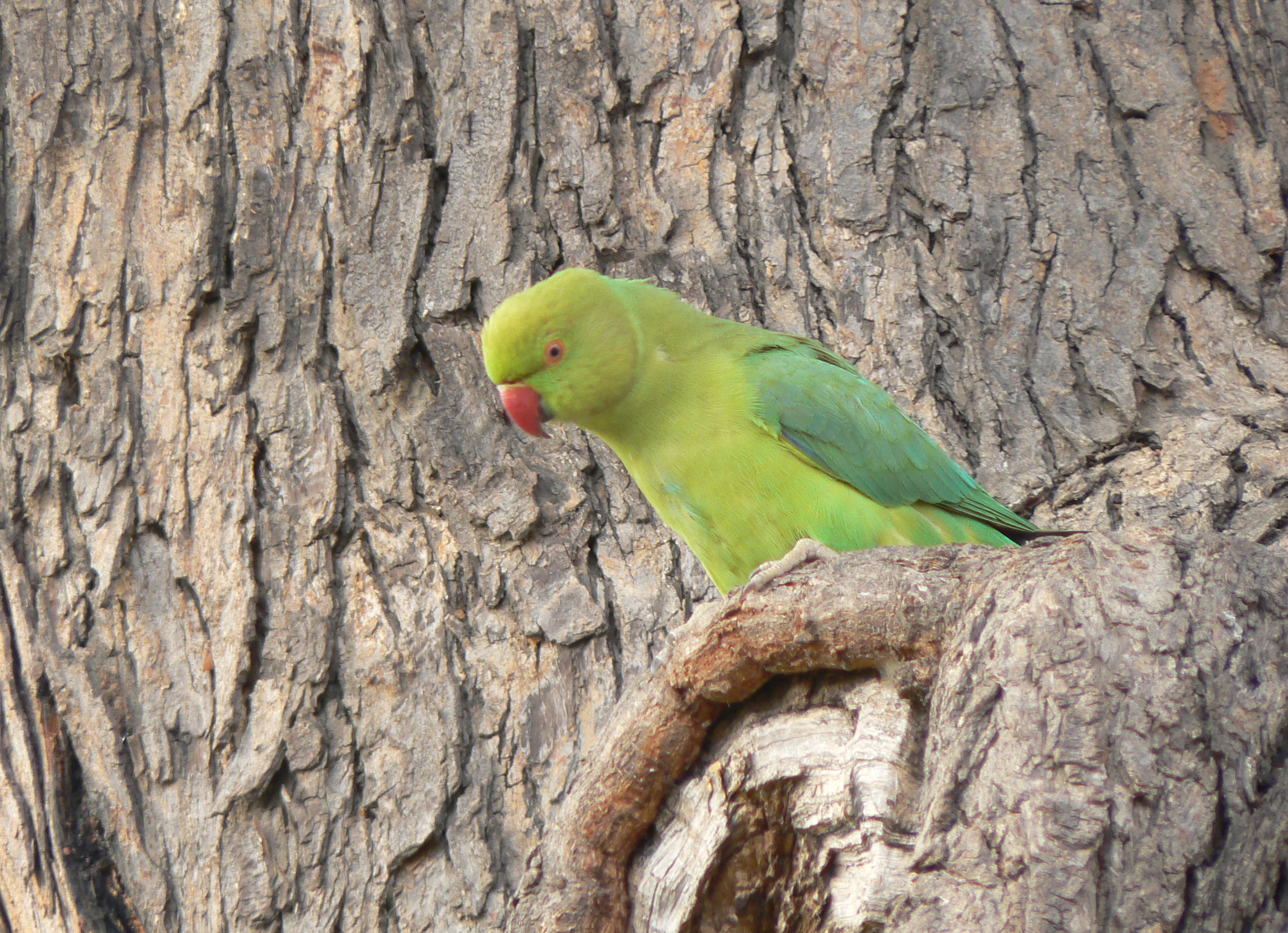 Psittacula krameri, wild, near Agra, India.